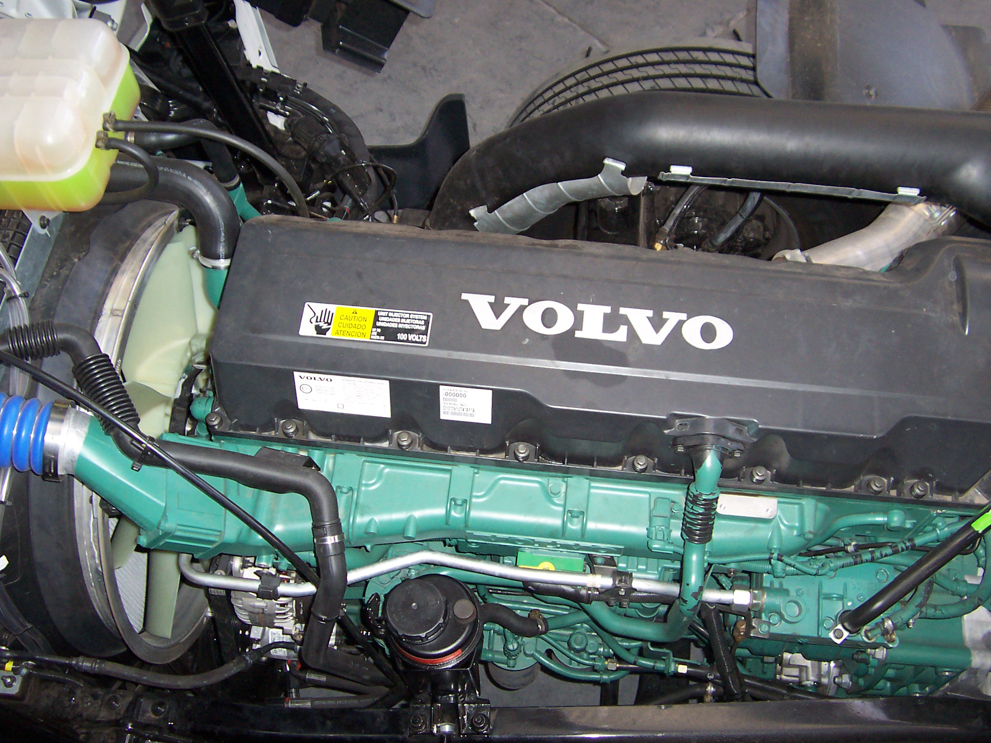 Volvo 13 litre 6 cylinder diesel engine